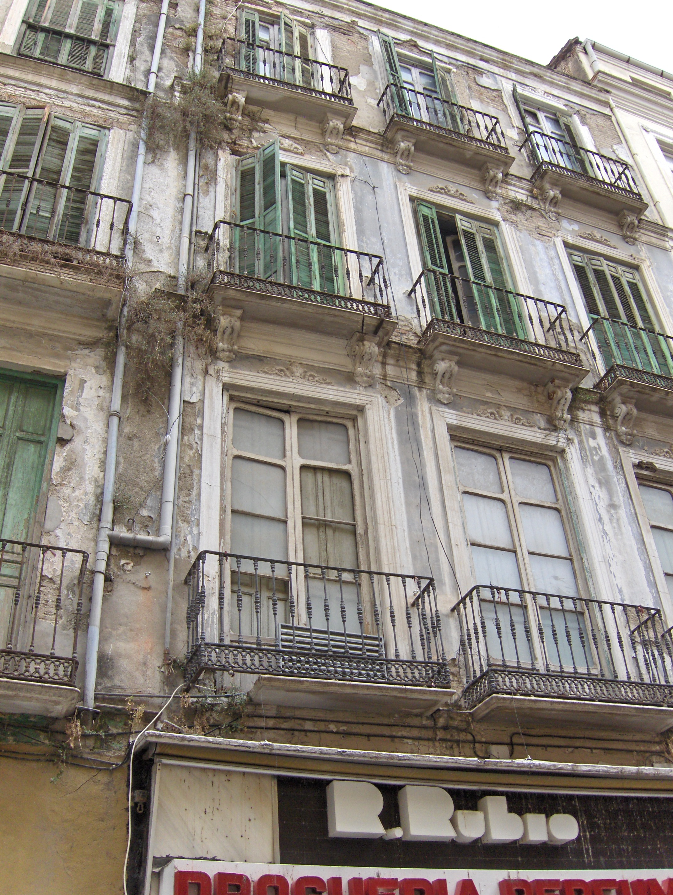 Building in calle San Juan 19, Málaga.